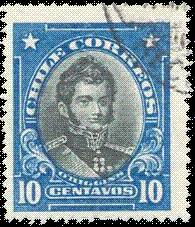 Definitive stamp of Chile. Bernardo O'Higgins. 10 cents. Scott #116, Soc. filatélica de Chile #130.